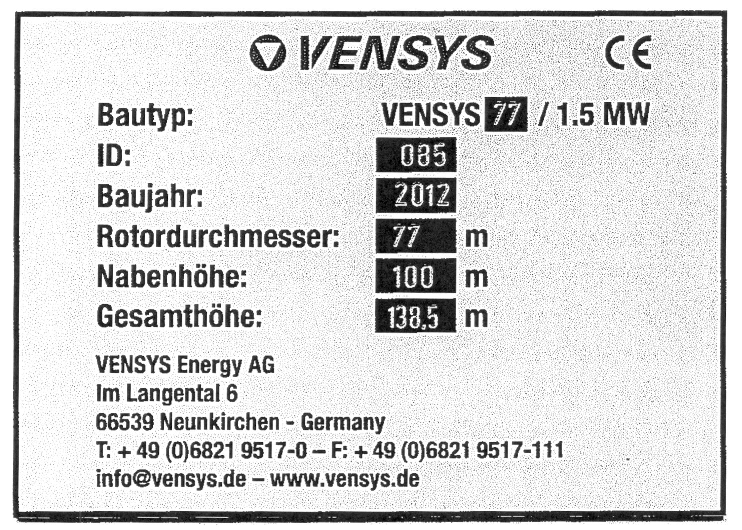 Data of wind turbine in Hannover, Germany.